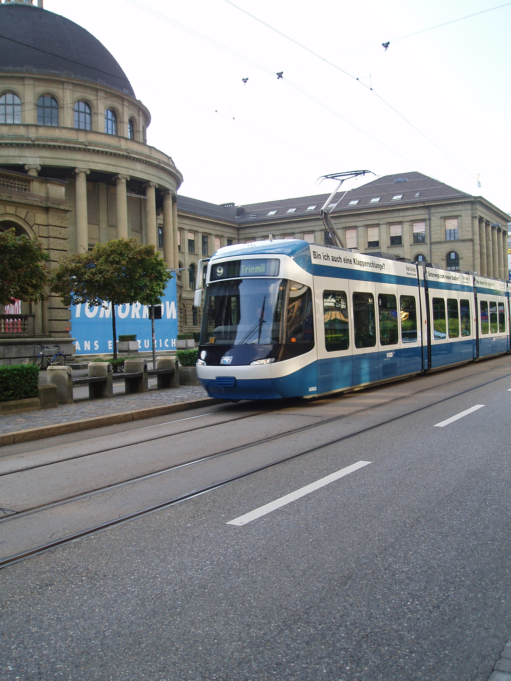 VBZ Cobra tram 3003 in front of ETH main building on Rämistrasse in Zurich